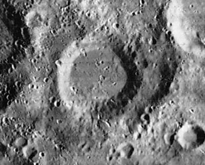 Saussure lunar crater - Lunar Orbiter - IV image LOIV 112 H2